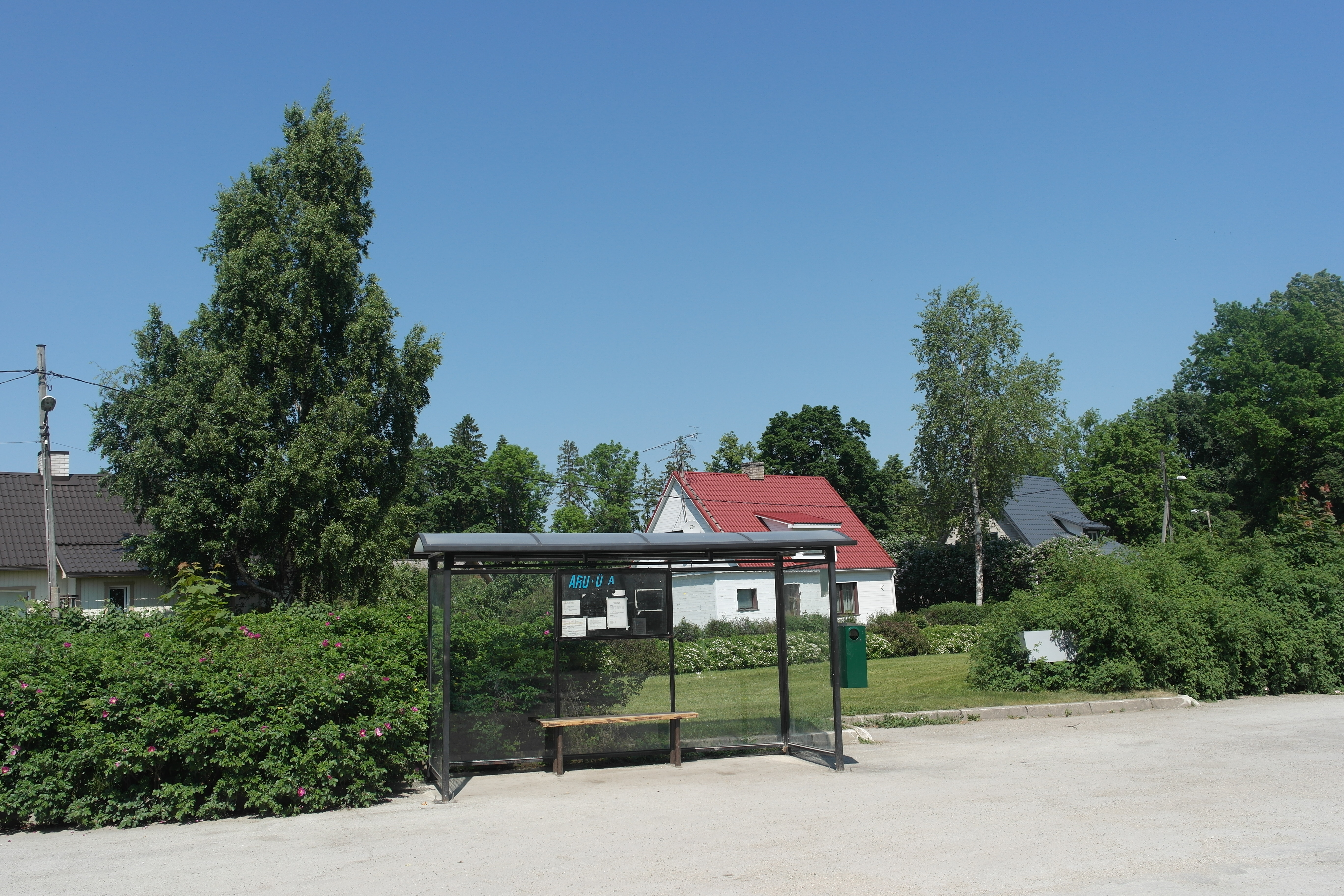 Aruküla local bus stop